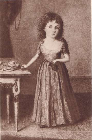 Duchess Louise of Mecklenburg-Strelitz